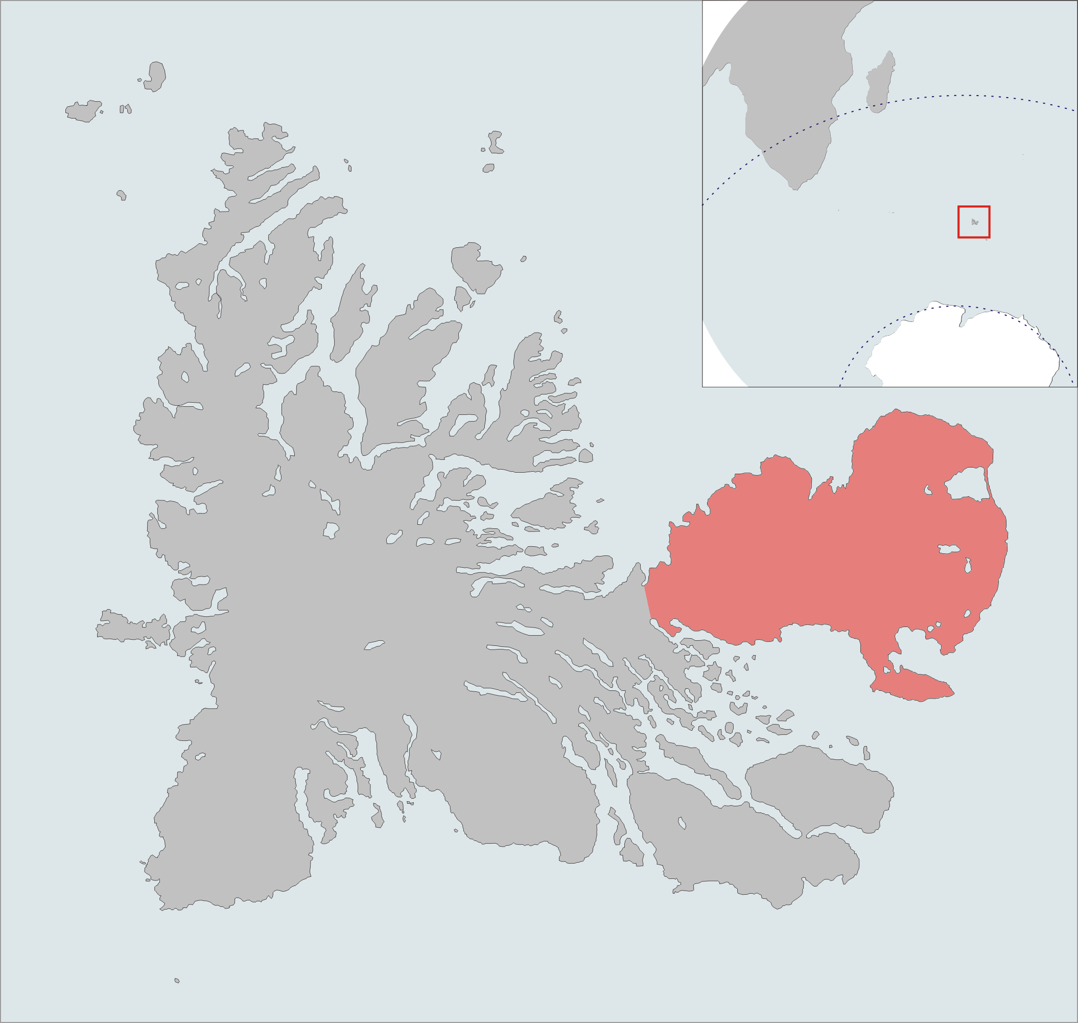 Position of Courbet Peninsula, in the Kerguelen Islands. Drawn by Varp and coloured by Thierry Caro.